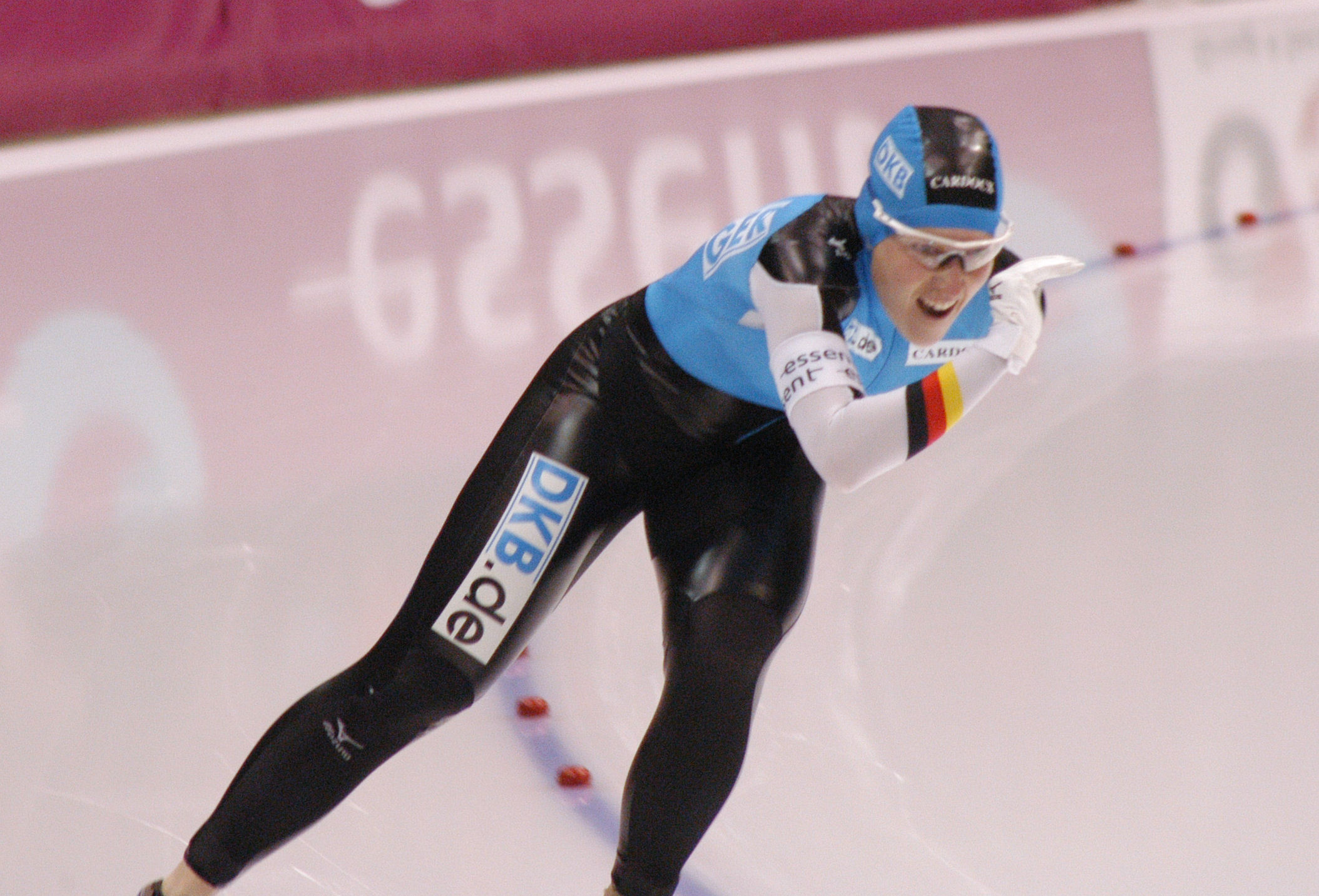 Katrin Mattscherodt (GER) in action at a World Cup Speedskating in Heerenveen, the Netherlands.